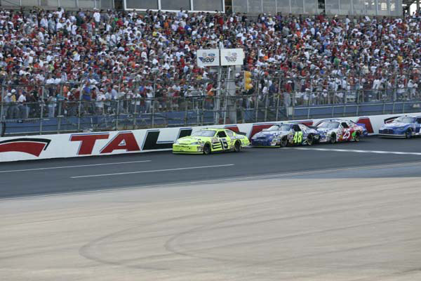 Paul Menard leads the pack at Talladega in October 2006.